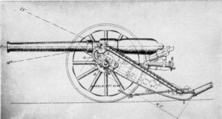 Diagram of British 2.5 inch RML ('Screw Gun') - the quoin method of elevation was the oldest known, and was used up to the end of the 19th century. The check rope provided the only means of controlling recoil with this equipment.